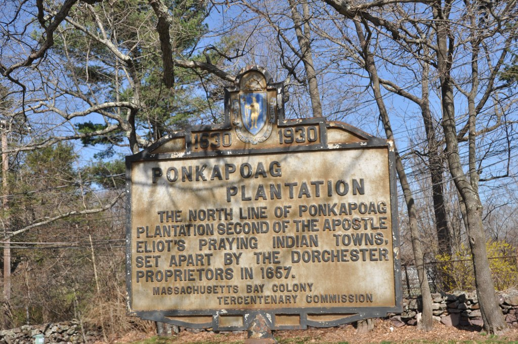 Historic marker on MA 138 in Canton, Massachusetts, showing the northern boundary of the colonial-era Ponkapoag Indian settlement.